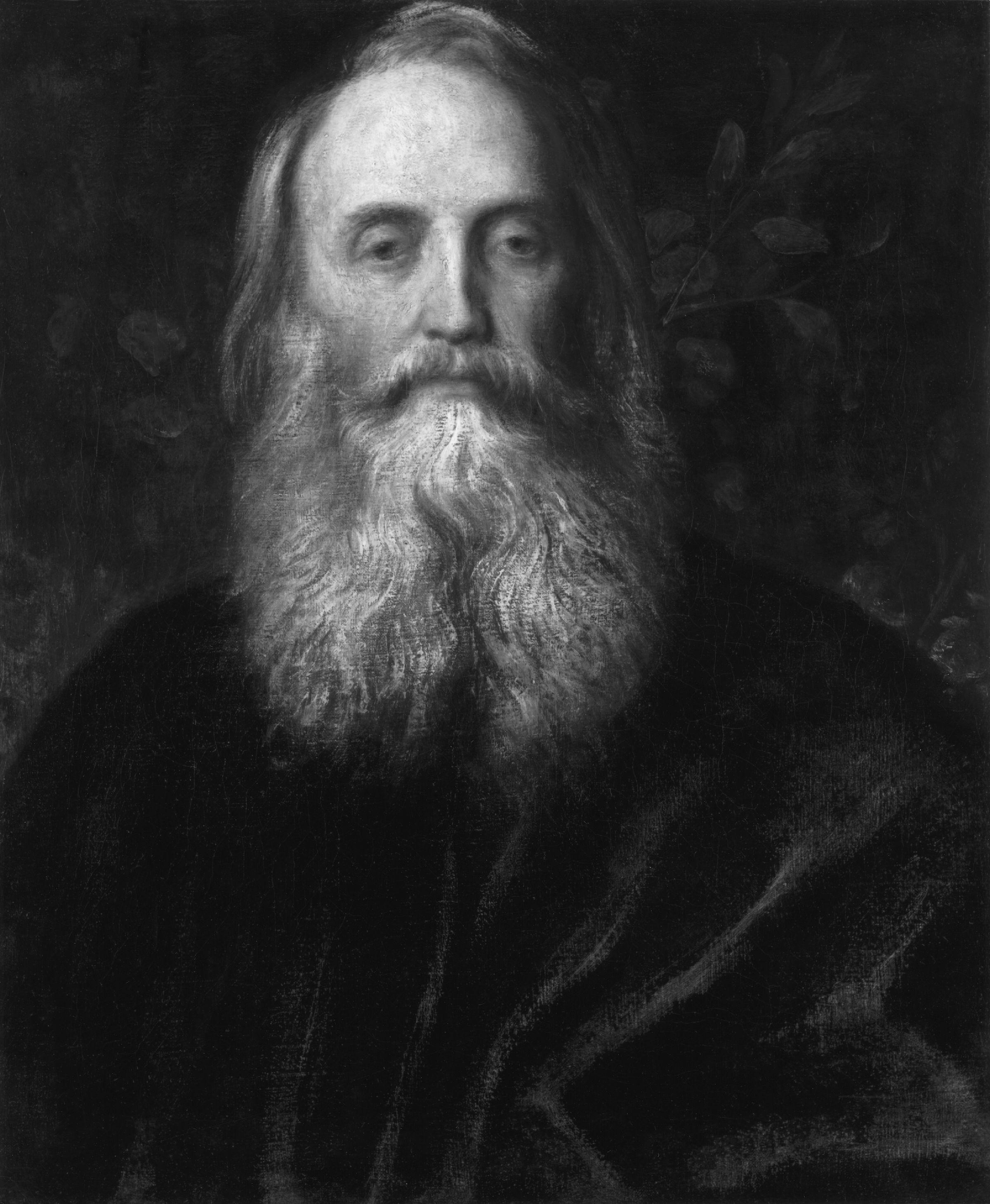 Sir Henry Taylor, by George Frederic Watts (died 1904), given to the National Portrait Gallery, London in 1895. All images in this batch have been confirmed as author died before 1939 according to the official death date listed by the NPG.